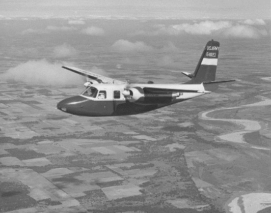 Aero Commander L-26C of the United States Army in flight.